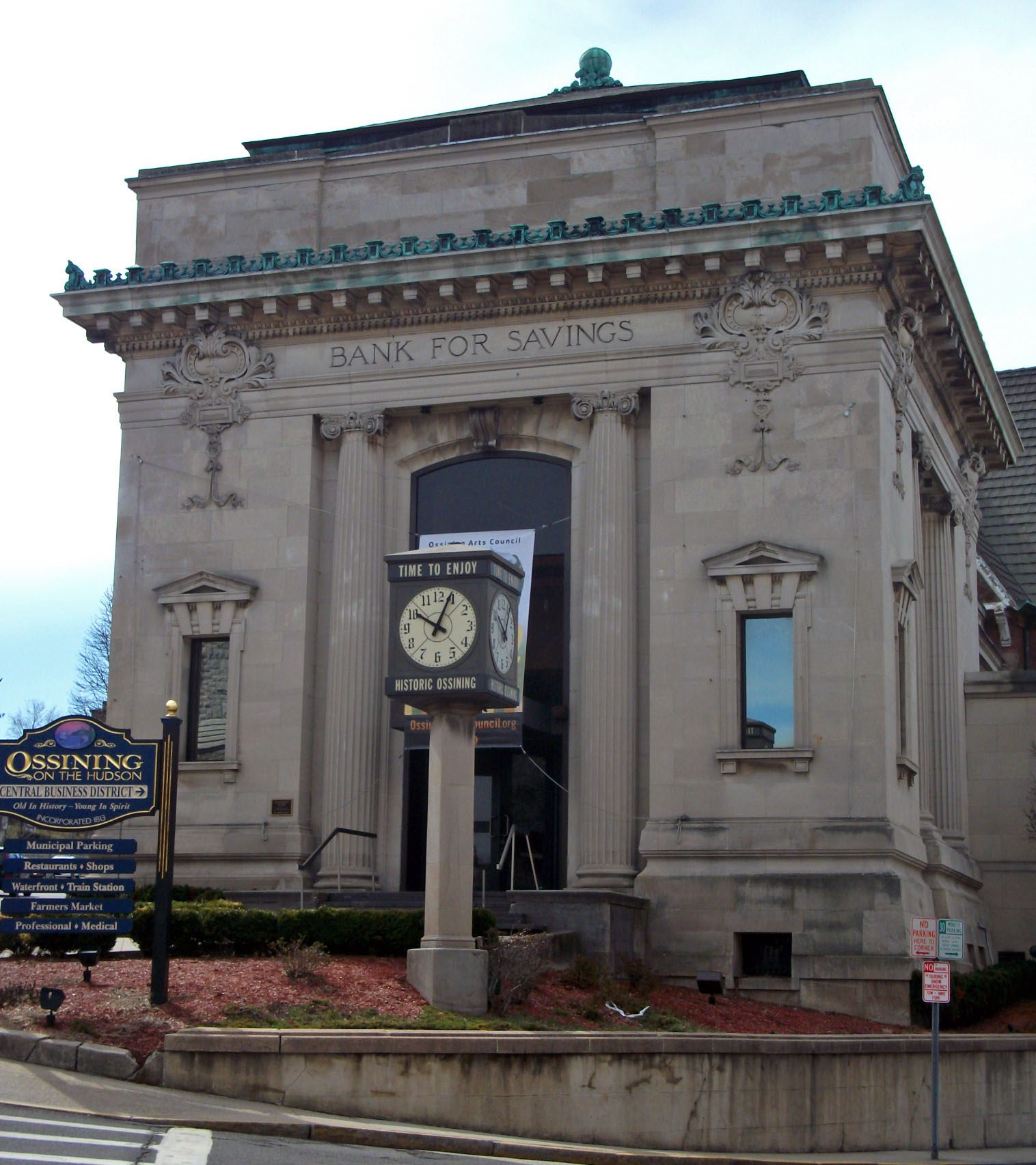 Bank for Savings building at South Highland Avenue and Main Street in Ossining, NY, USA, a contributing property to the Downtown Ossining Historic District